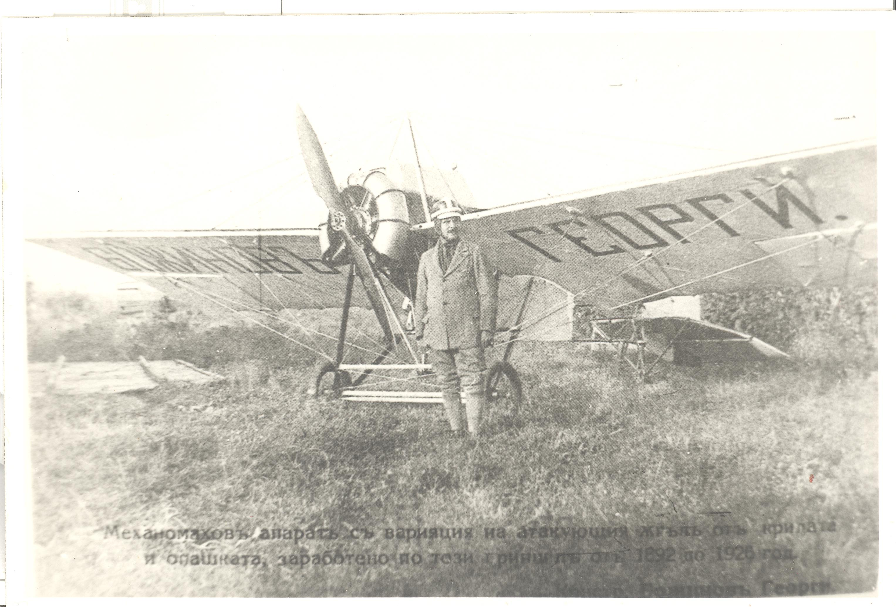 Airplane of Georgy Bozhinov